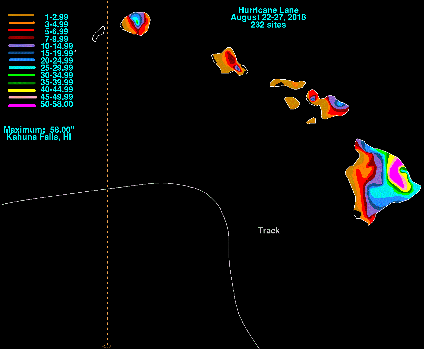 Map of rainfall accumulations from Hurricane Lane across Hawaii in August 2018